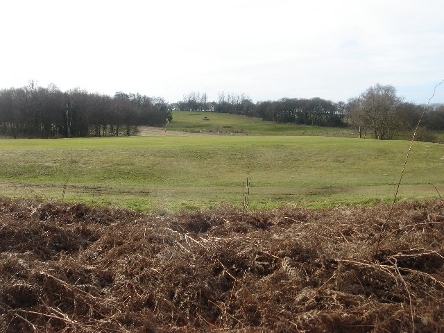 Chorley Golf Course. Photo taken from Long Lane looking SW.